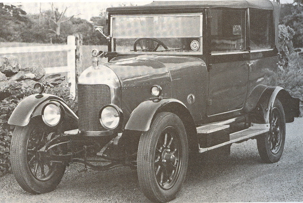 1924 Morris Oxford cabriolet